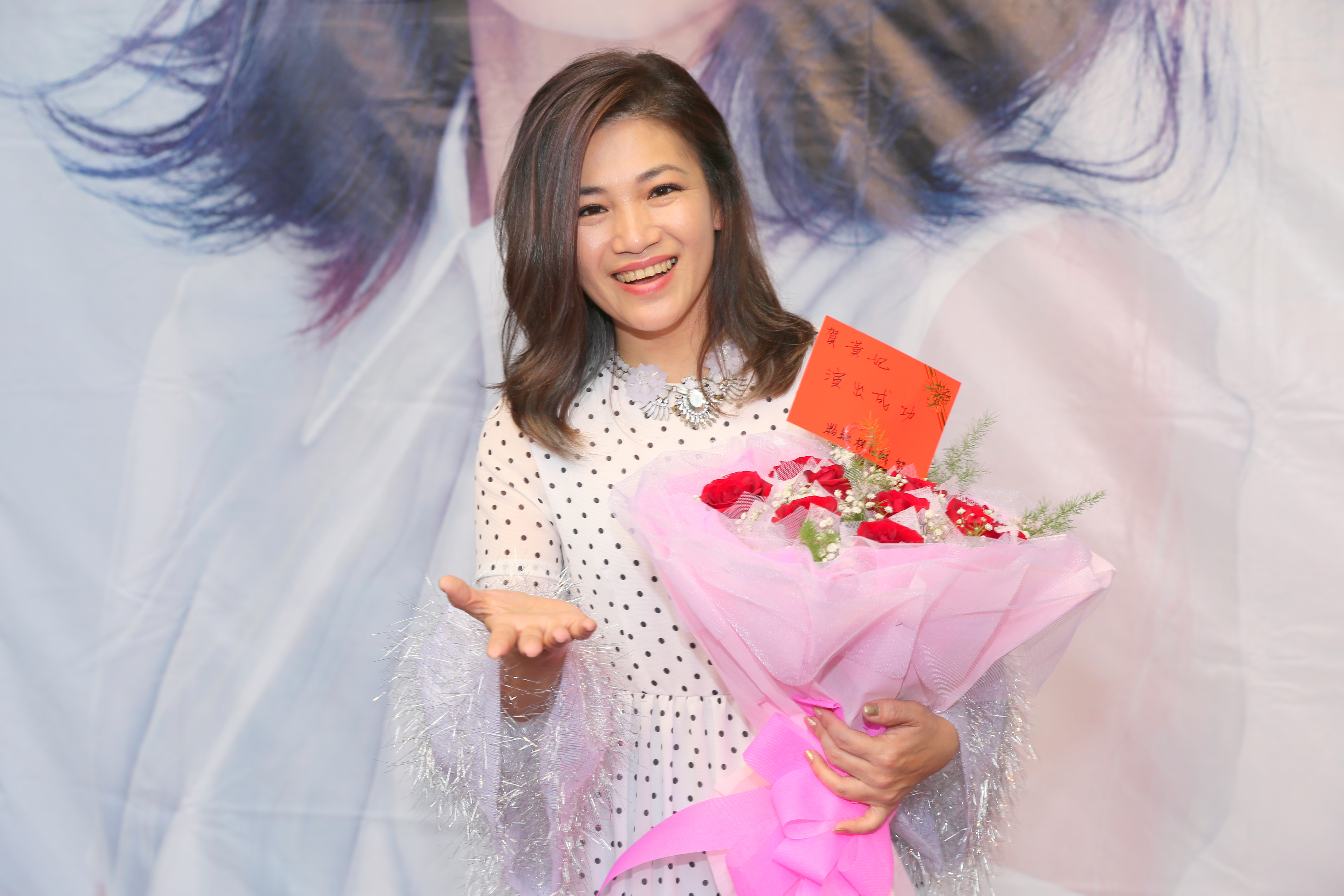 Huang Fei (Chinese: 黃妃; born 13 July 1974) is a Taiwanese Hokkien pop singer.